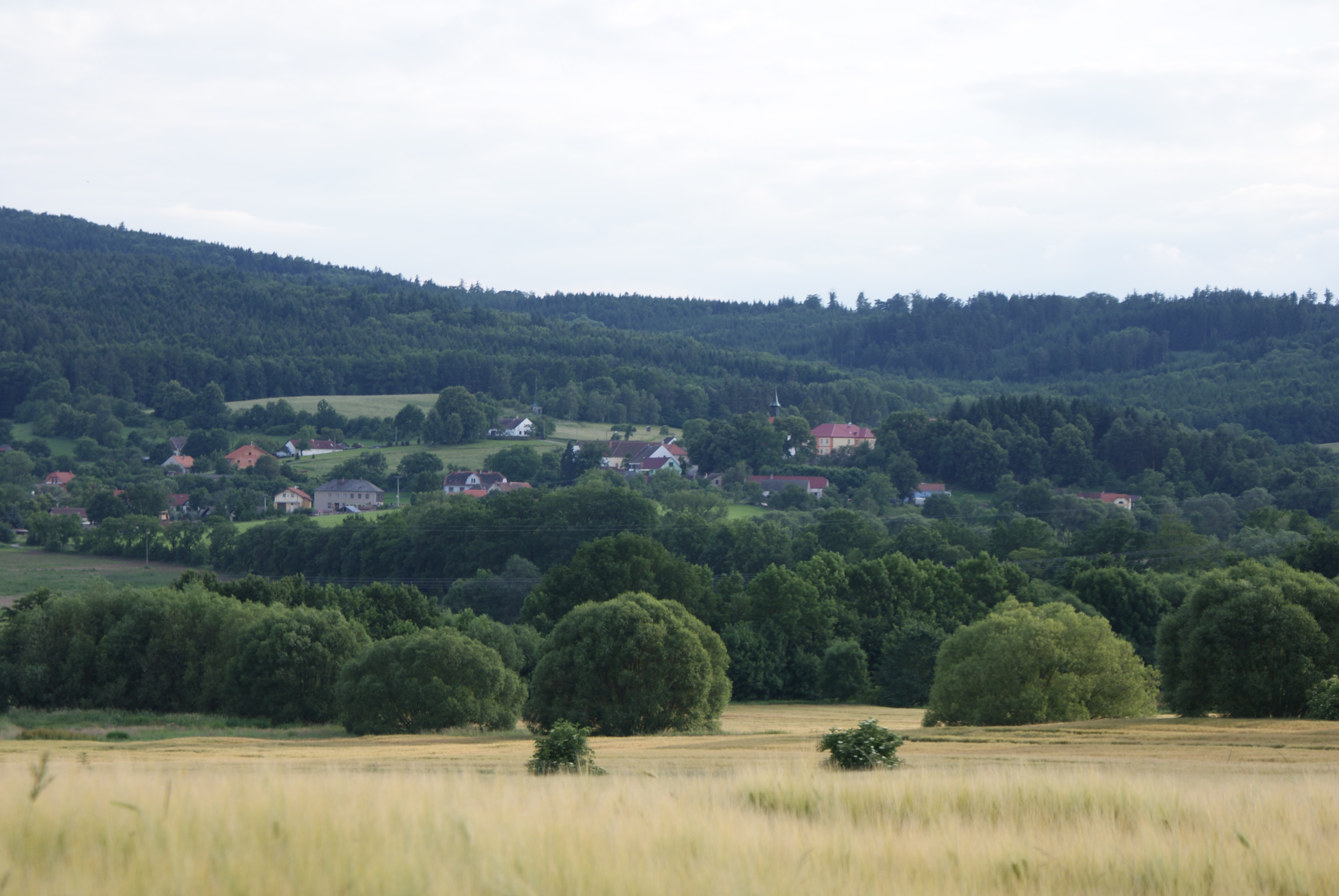 Skočice, village in Strakonice district, Czech Republic, general view Česky: Skočice, okres Strakonice, celkový pohled